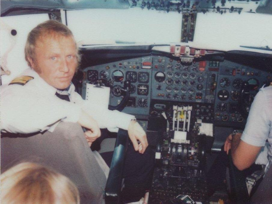 Cockpit photo from a Boeing 720, flight 421 Copenhagen–Palma ,oct 4:th 1979. (Captain is my father). Location somewhere between Copenhagen and Palma de Mallorca.